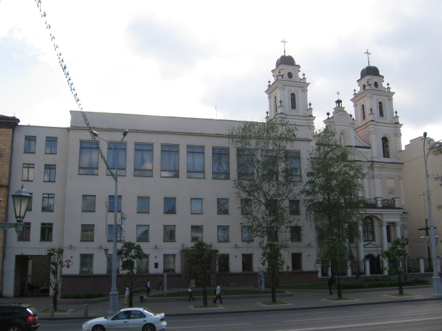 The former residence of the governor, Minsk